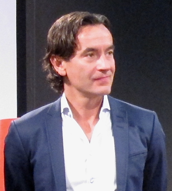 Douglas Roos